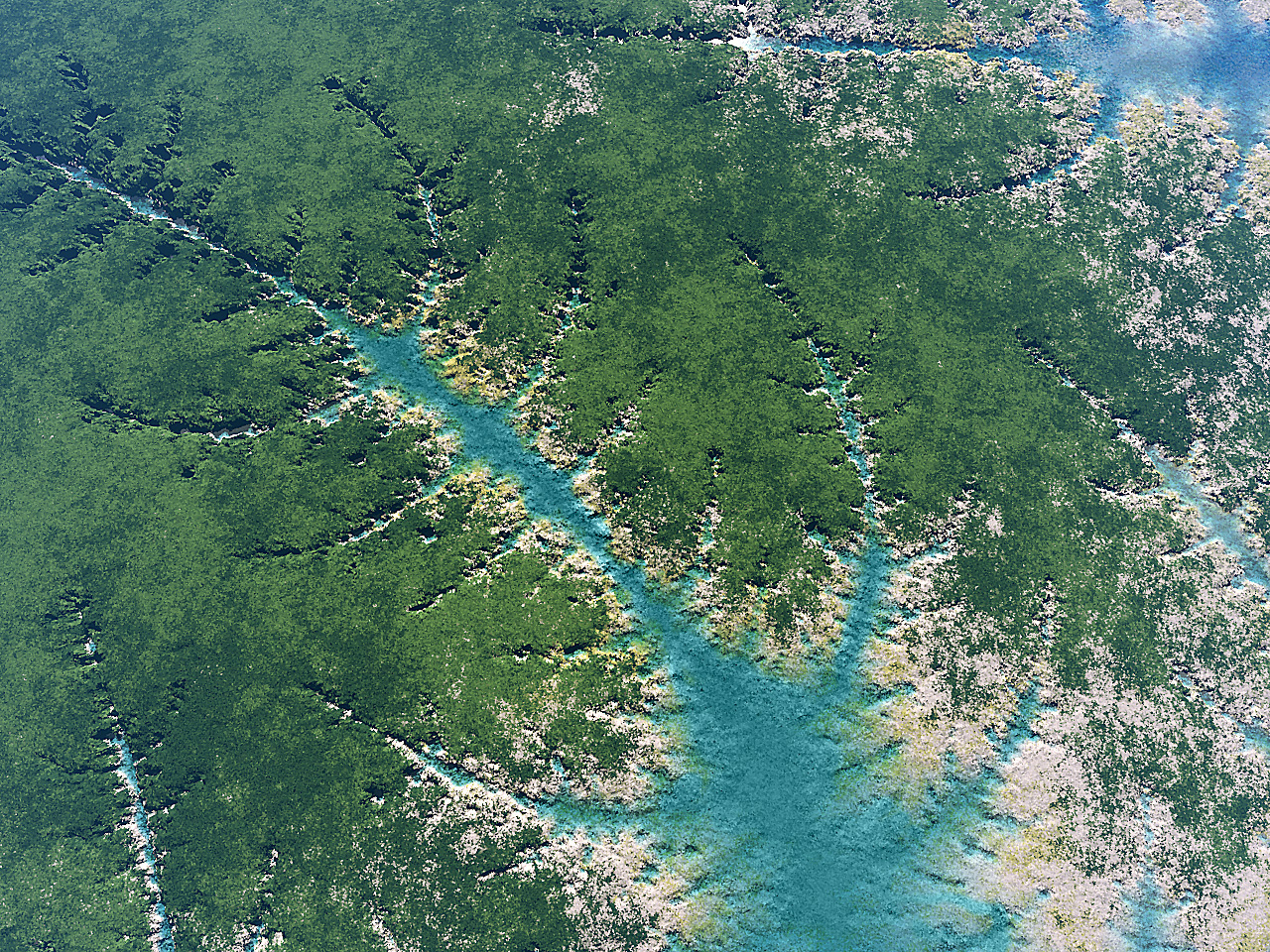 Landscape generated from a detail of the Mandelbrot set. Tools used : Ultra fractal, Terraformer and Terragen.